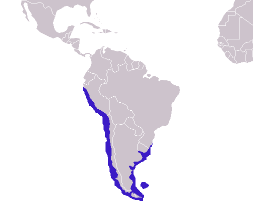 Distribution of the South American Sea Lion